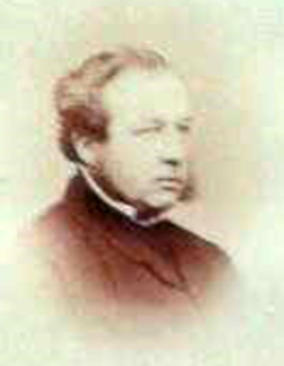 Ralph George Pochin (1829-1897) of Braunstone Hall (now Winstanley HOuse) Leicester